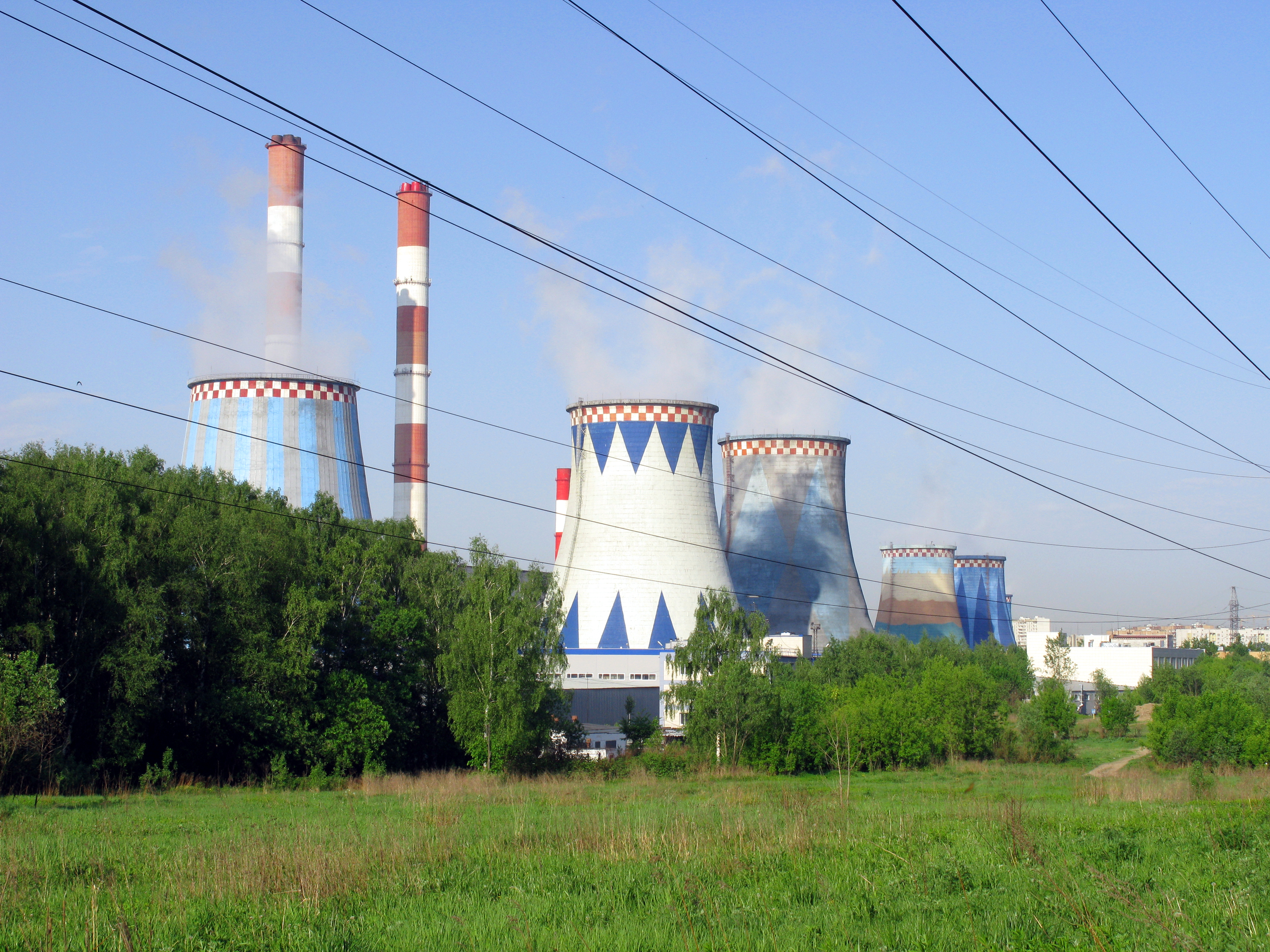 Heat and power plant #23 (Moscow, Goliyanovo)